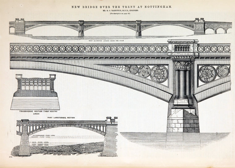 1869 set of drawings for Trent Bridge.